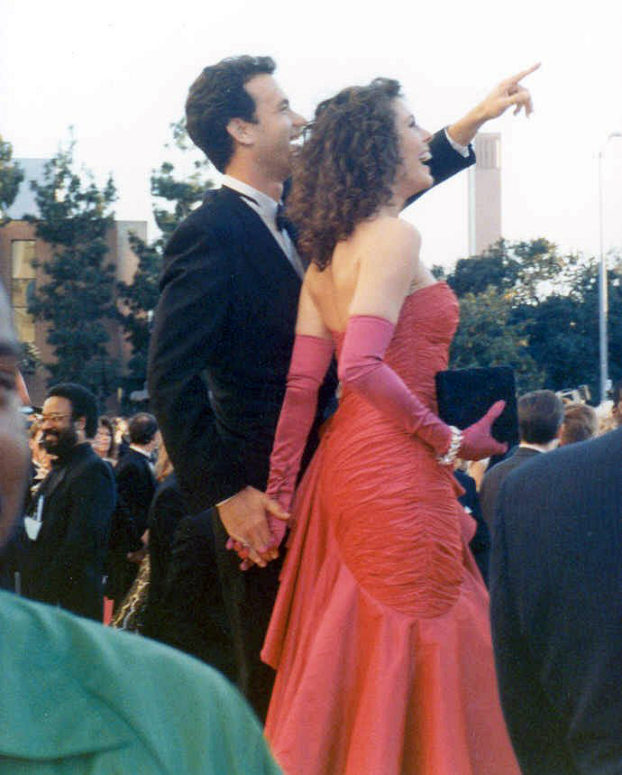 Tom Hanks and wife Rita Wilson on the red carpet at the 1989 Academy Awards, March 29, 1989